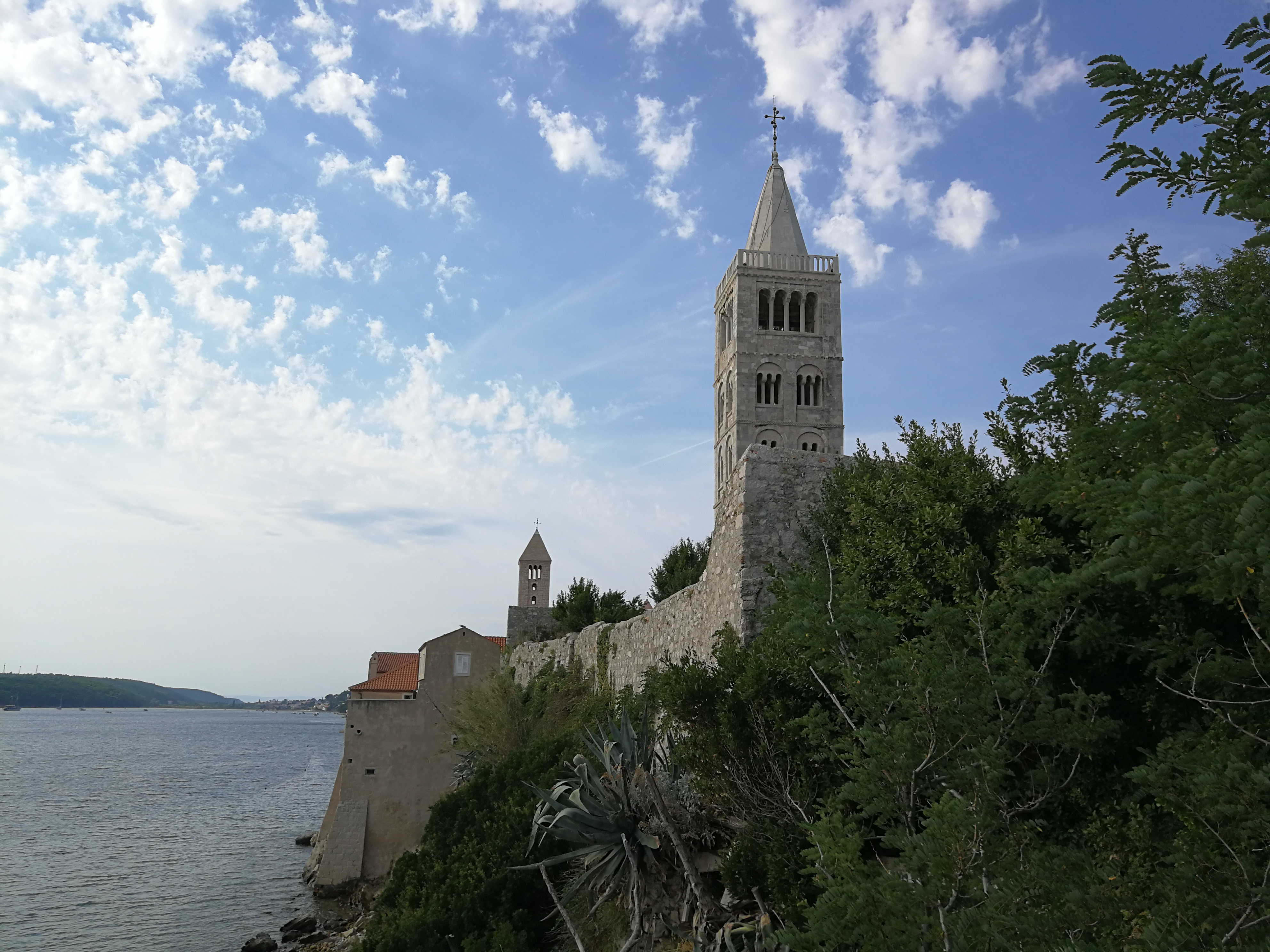 Belfry of the Cathedral of the Assumption of the Blessed Virgin Mary (Rab)